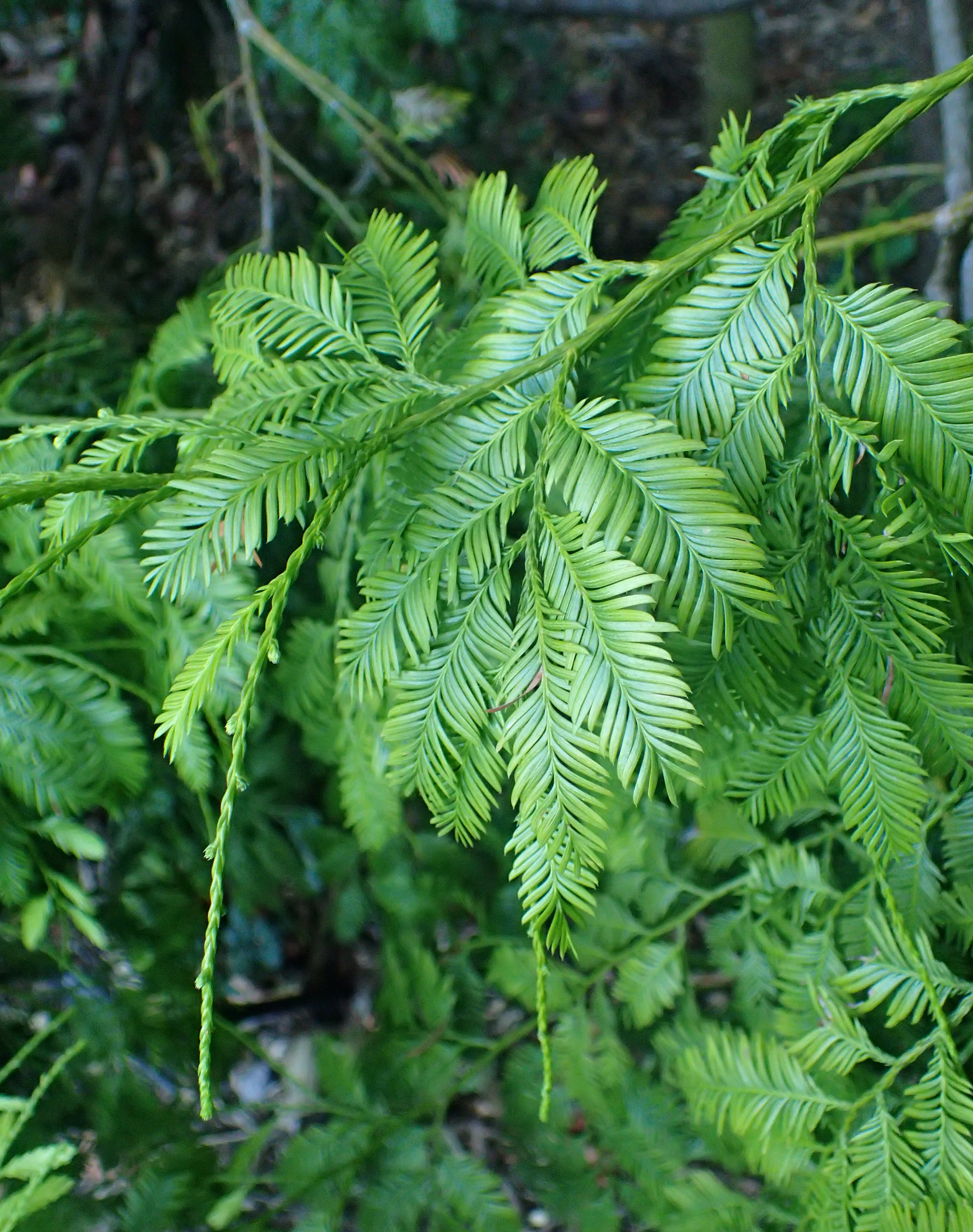 Dacrycarpus imbricatus in the San Francisco Botanical Garden